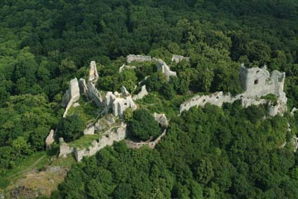 Gýmeš Castle, Slovakia, aerial photography to 403-1443/22